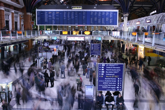 Rush hour, Liverpool Street